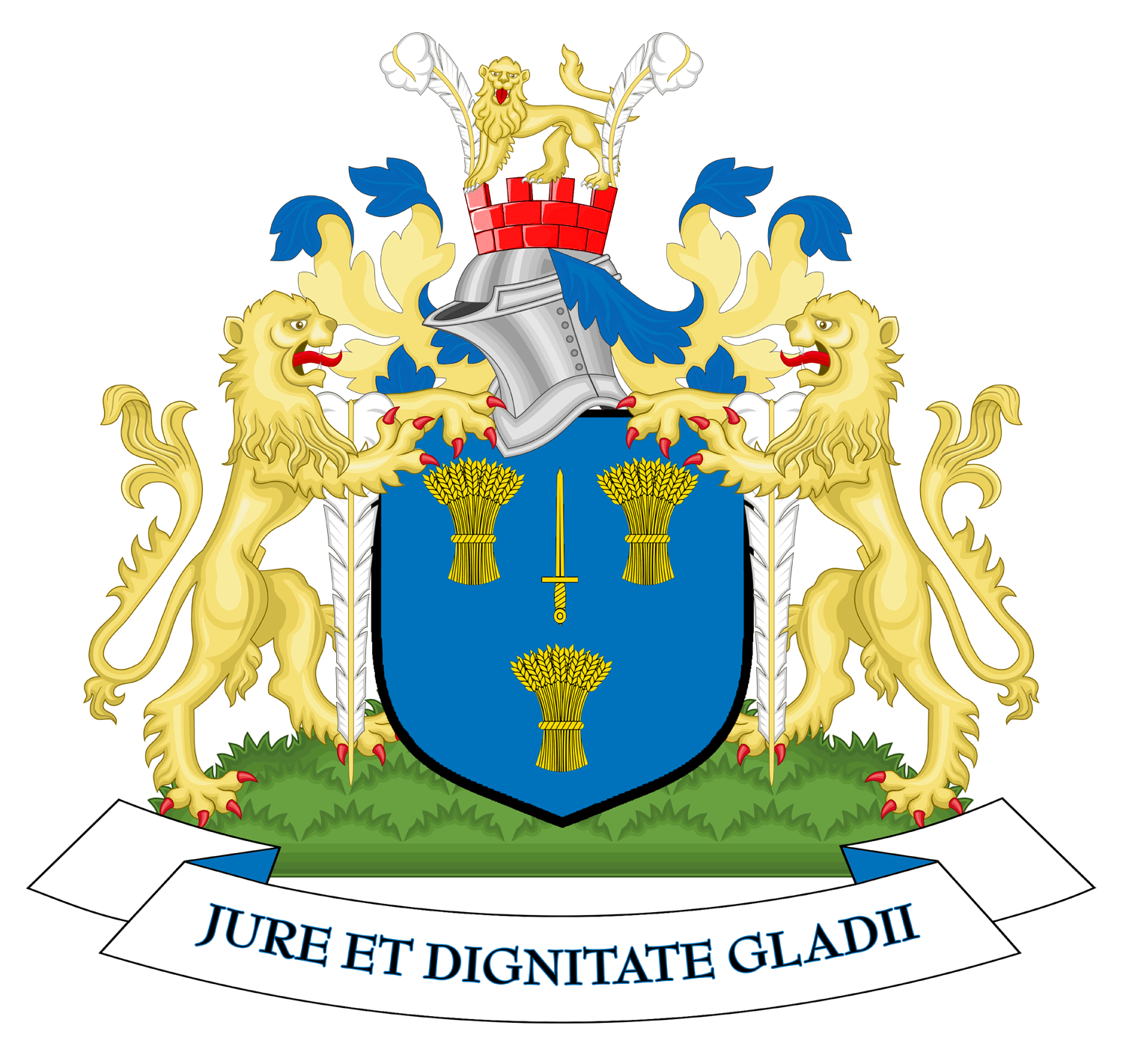 The Coat of arms of Cheshire County Council, the top-tier local government authority for the county of Cheshire between 1889 and 2009. The blazon is:ARMS: Azure a Sword erect between three Garbs Or.CREST: Upon a Mural Crown Gules a Lion statant guardant Or between two Ostrich Feathers Argent.SUPPORTERS: On either side a Lion Or supporting between the forelegs an Ostrich Feather Argent.